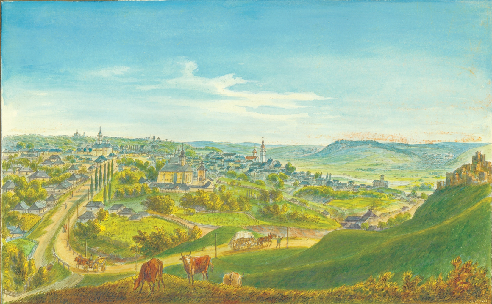 Suceava - painting by Franz Xavier Knapp (1867).